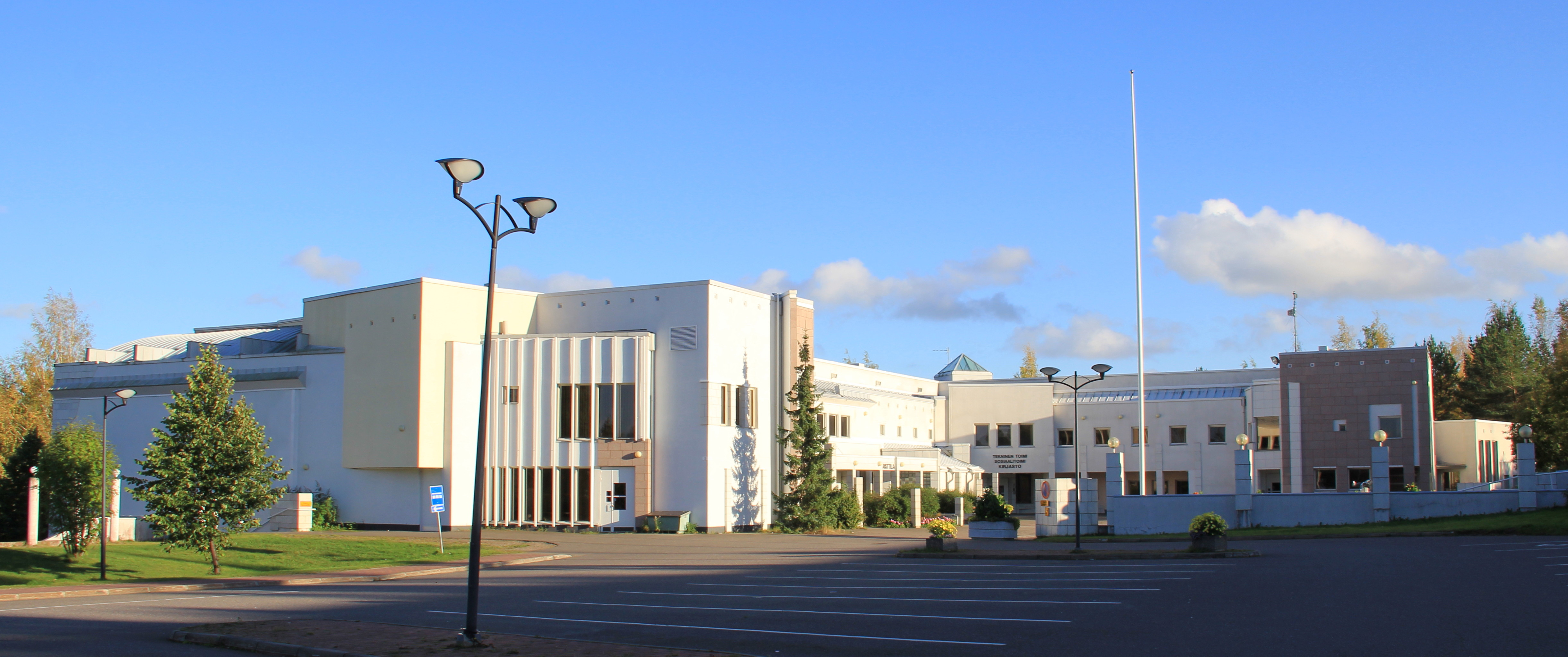 Kattila building, Naarajärvi, Pieksämäki, Finland. - Kanttila buiding was completed as town hall of Pieksämäki rural municipality in 1988, architect Jouni Koiso-Kanttila. Serves nowadays as assembly and office building and library of Pieksämäki town.